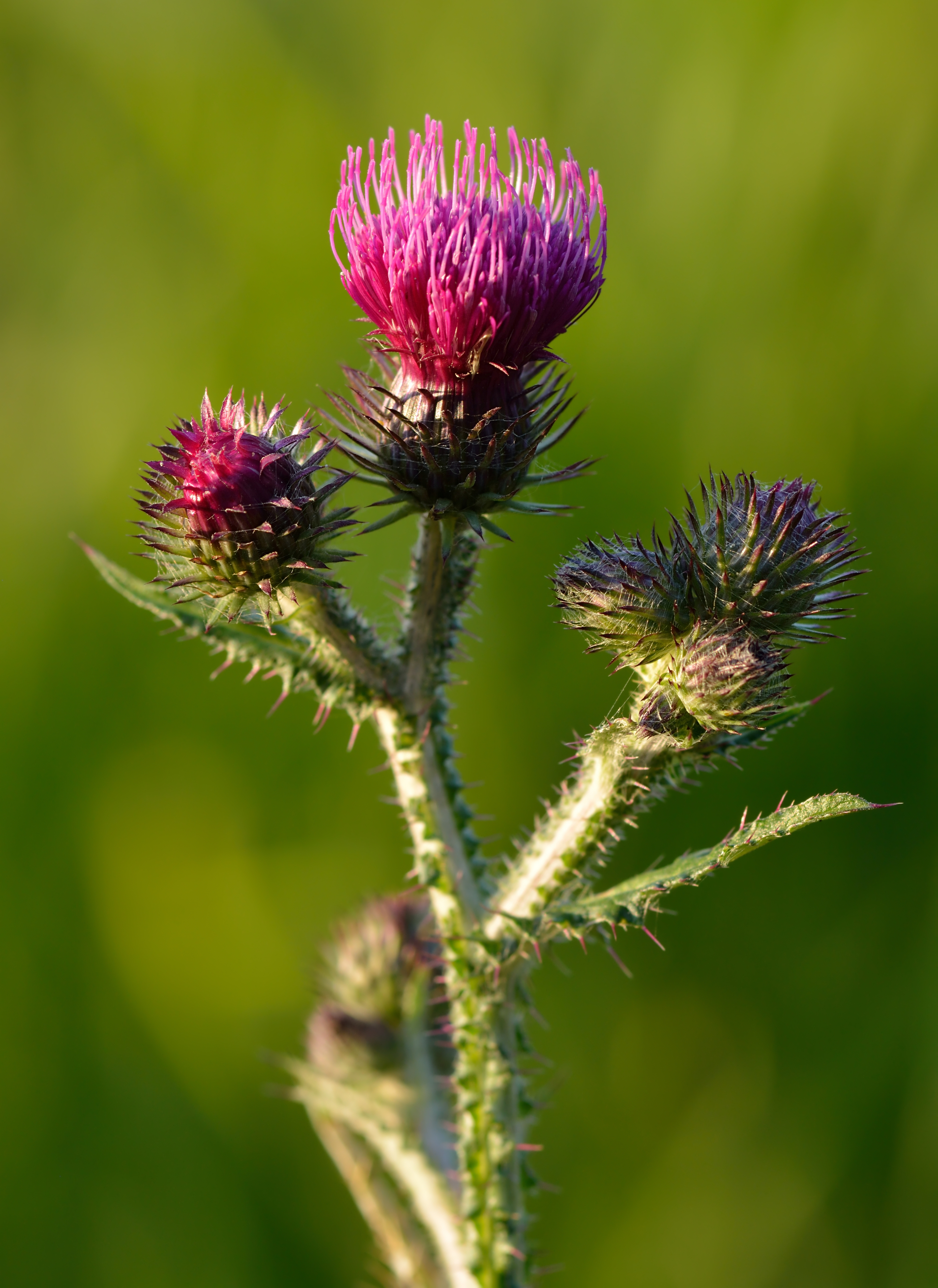 Curly plumeless thistle.